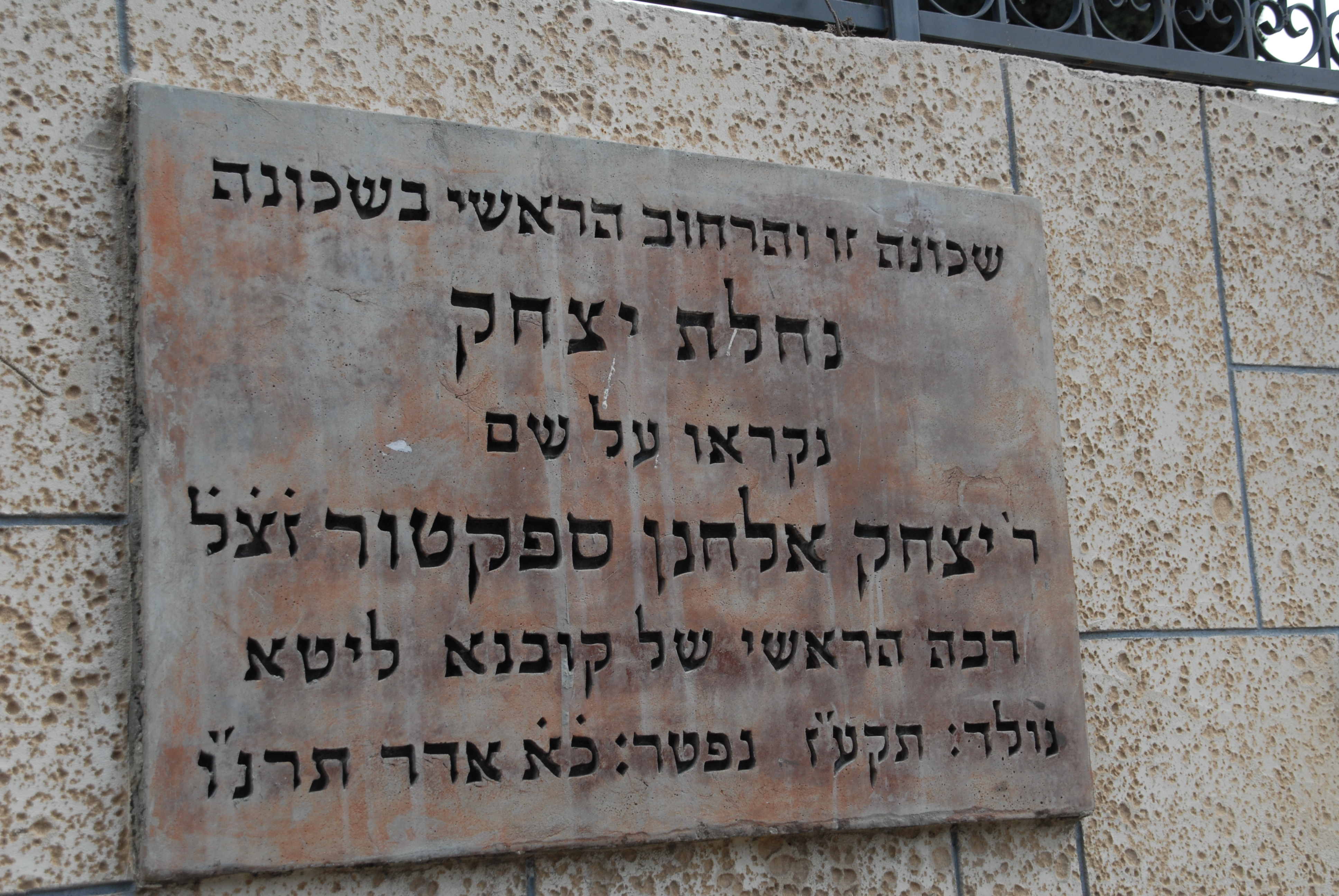 Geography of Israel